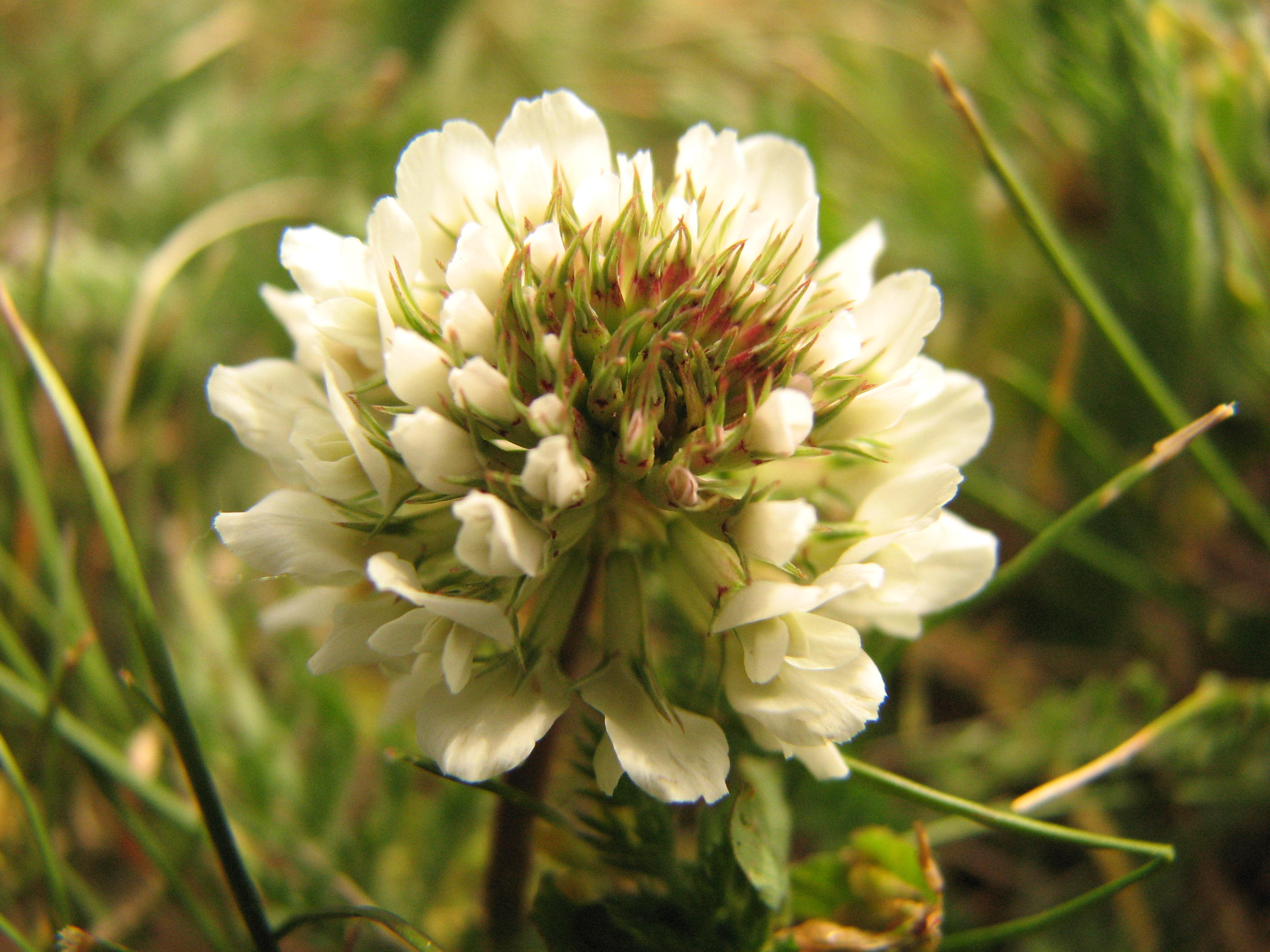 The flower of a Trifolium repens (white clover).